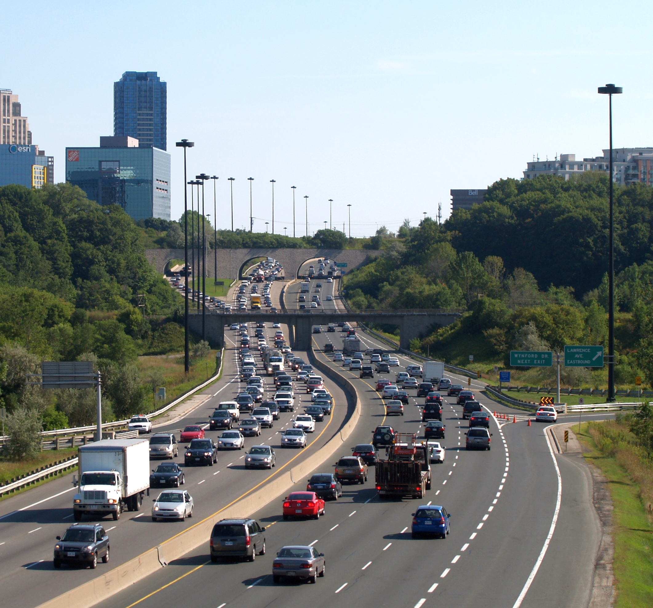 Don Valley Parkway looking north from Lawrence Avenue overpass